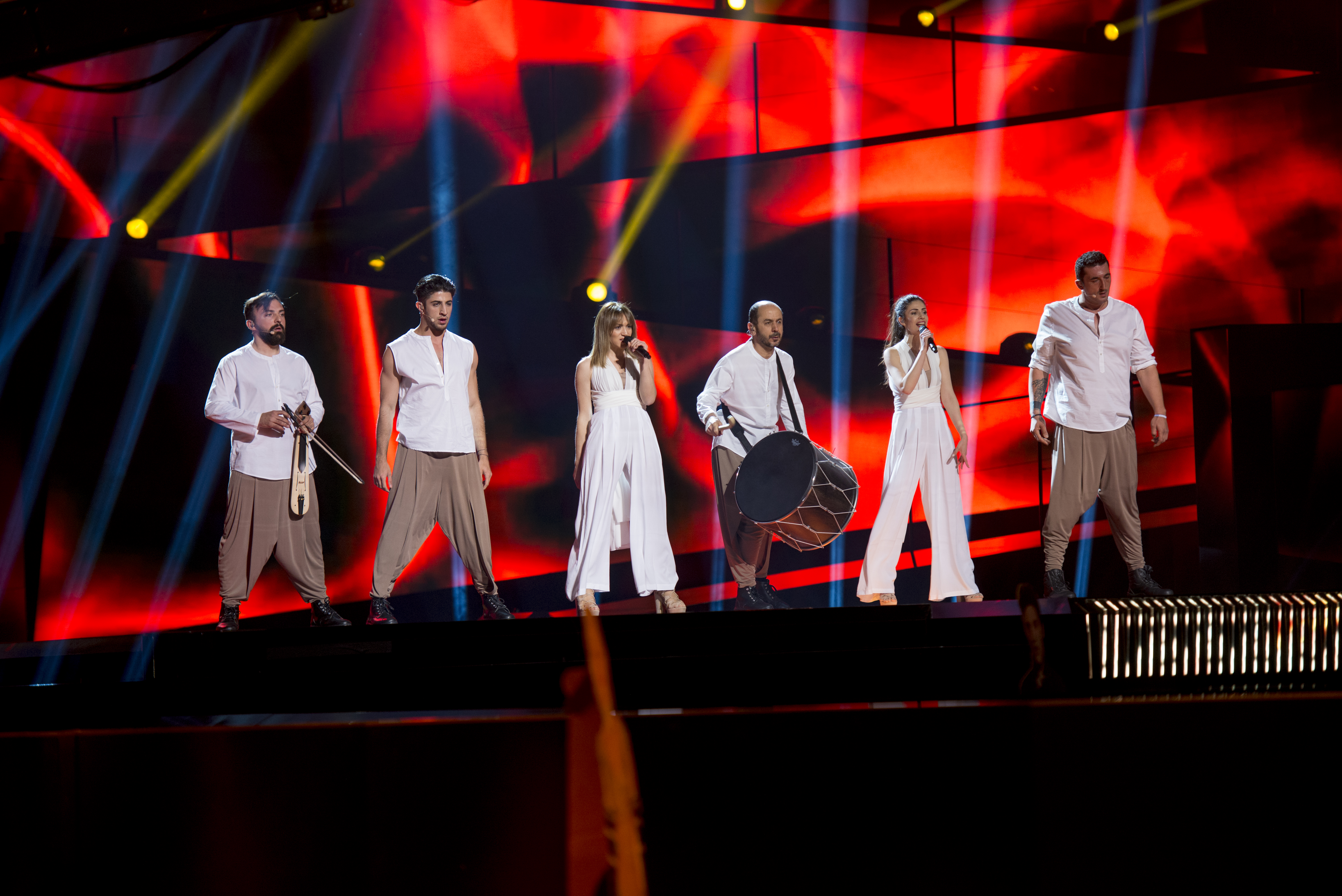 Argo representing Greece with the song "Utopian Land" during a rehearsal before the first semi final of the Eurovision Song Contest 2016 in Stockholm. (Help translate this text)